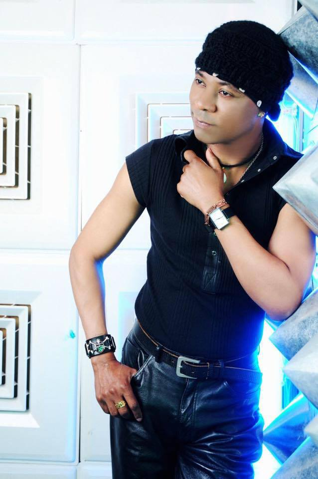 Lister Elia, a famous keyboardist, author, teacher and personal trainer from Tanzania who currently living in Japan.